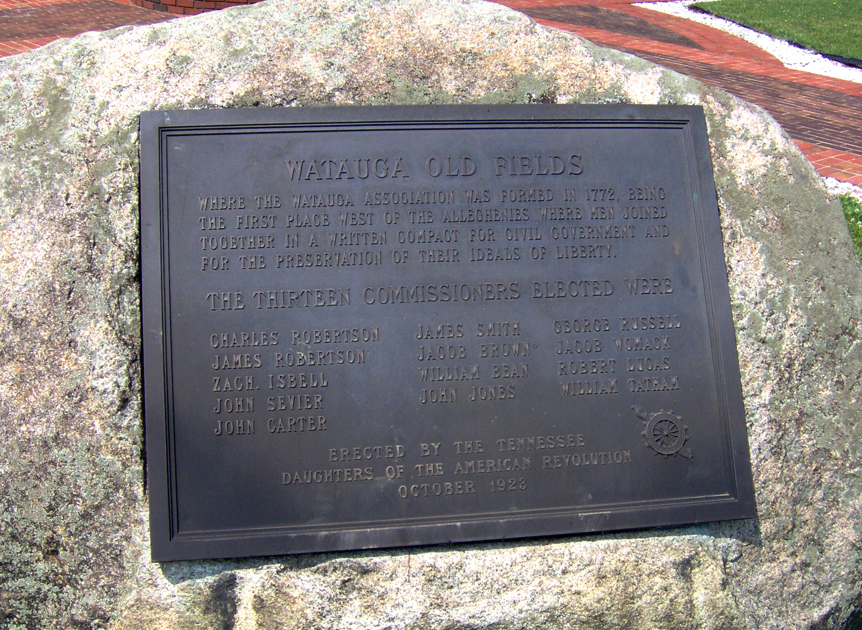 Monument at the Carter County Courthouse in Elizabethton, Tennessee, USA, dedicated to the Watauga Association (1772–1778), a semi-autonomous government that played a prominent role on the 18th-century Trans-Appalachian frontier. The monument erroneously lists the 13-member Washington District Committee of Safety (formed in 1775) as the Watauga Association's first court (this mistake was caused by 19th-century historian J.G.M. Ramsey, who confused the court and the committee).